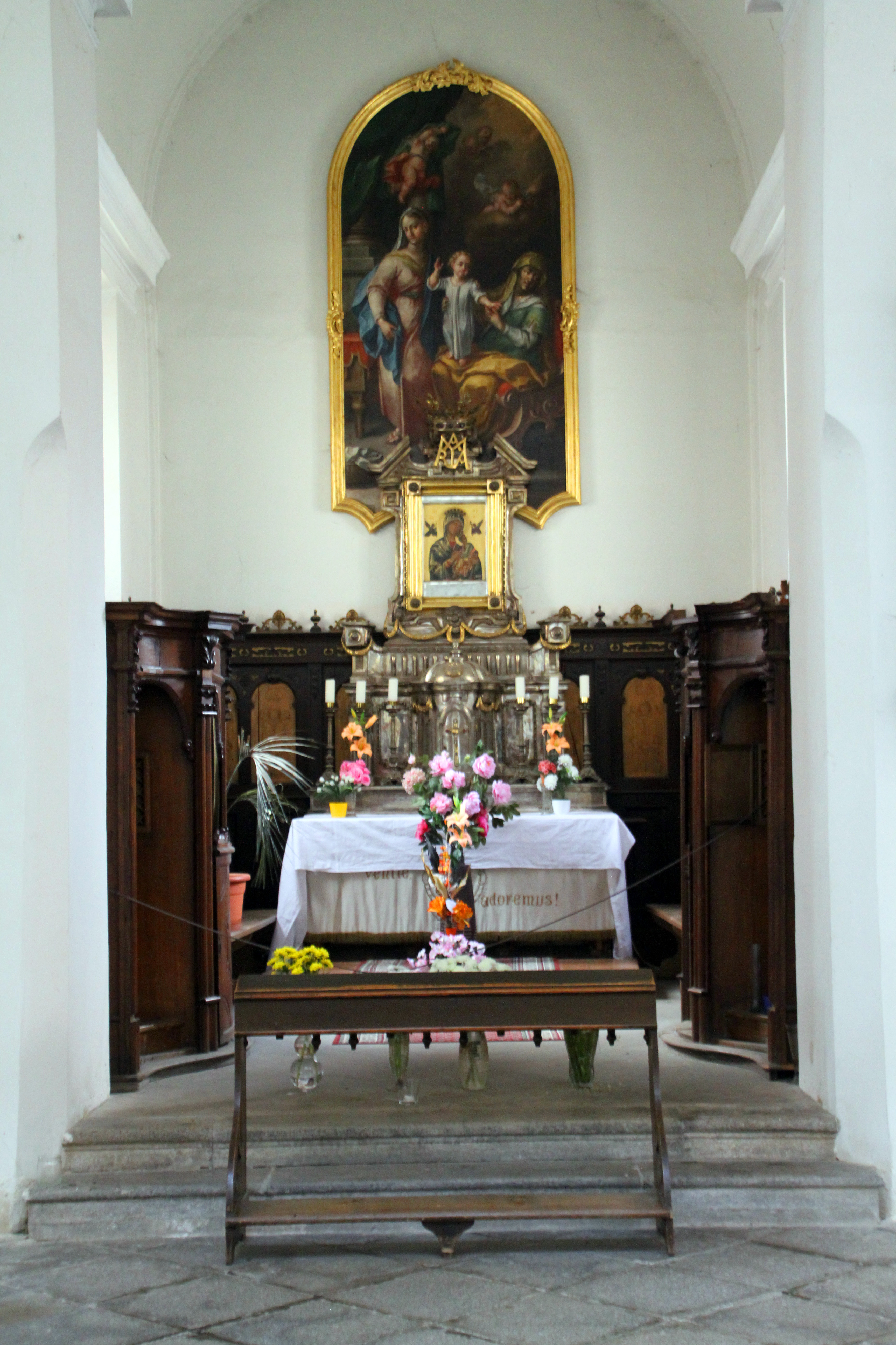 Church Obětování Panny Marie in České Budějovice, interior decoration.